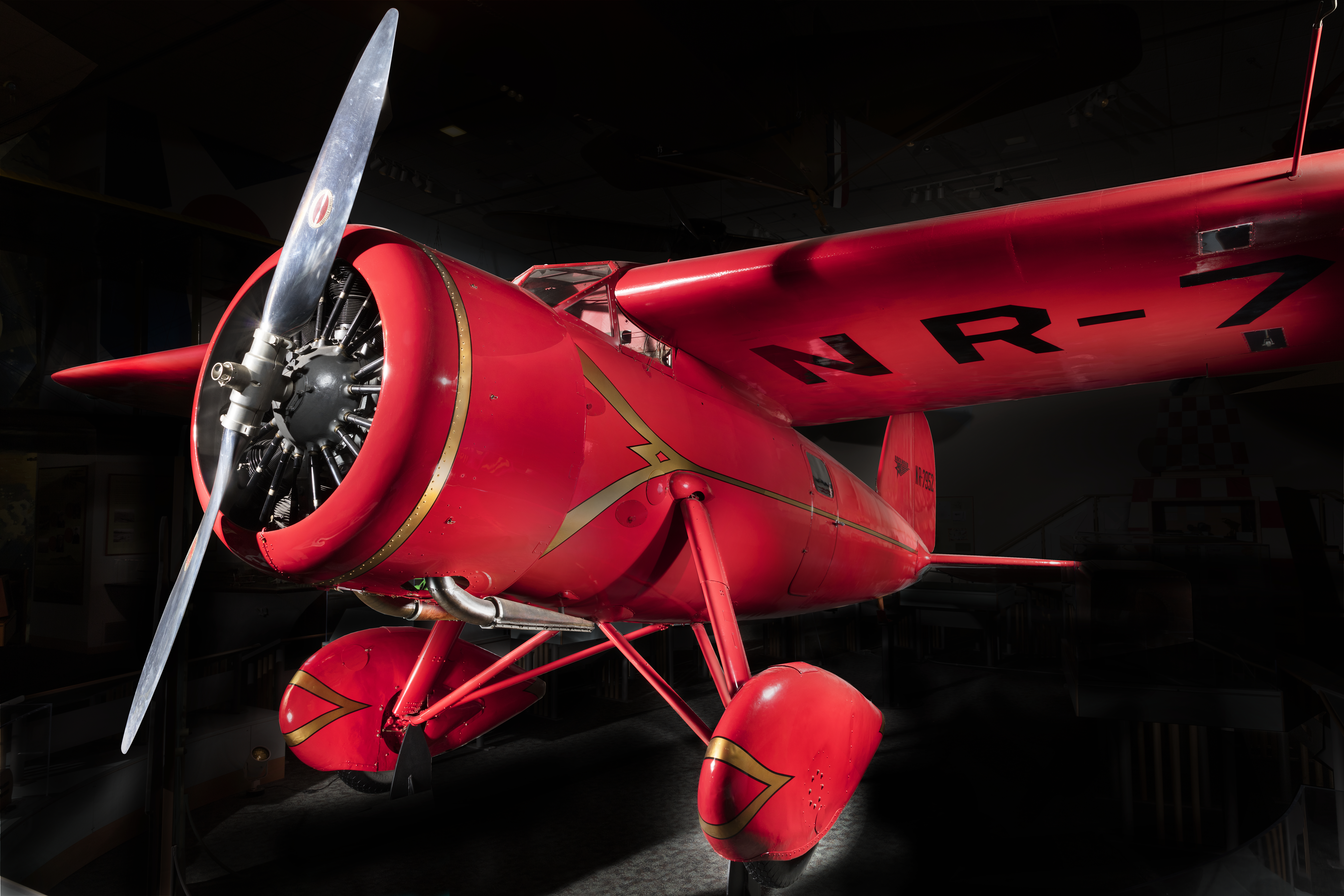 Amelia Earhart Lockheed Vega 5B (A19670093000) at the Smithsonian Institution National Air and Space Museum. Photo taken by Eric Long. Photo taken on December 28, 2016. (A19670093000.3T8A4249) (A19670093000-NASM2018-10363)